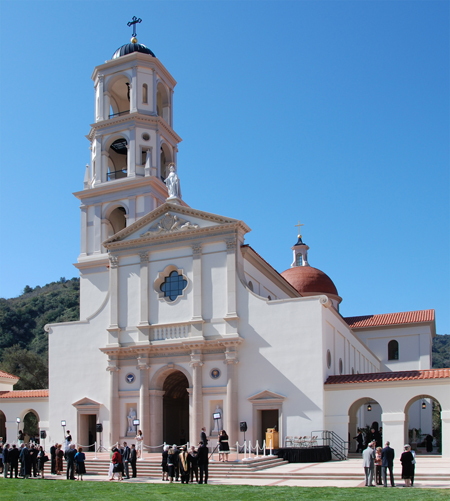 The Chapel.